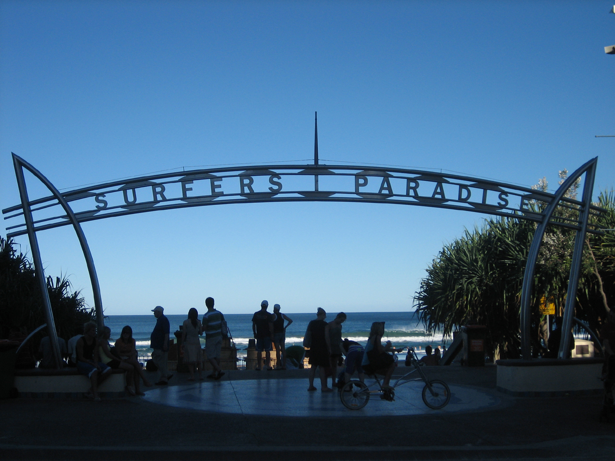 Door to the main Beach in Surfers Paradise (Queensland, Australia)